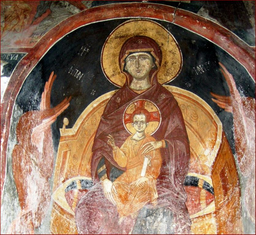 Saint George on the Hill Church Fresco